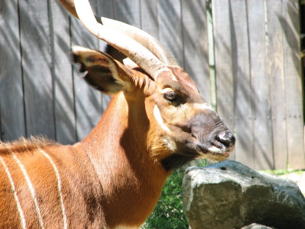 Bongo - Tragelaphus eurycerus isaaci at Louisville Zoo in Kentucky